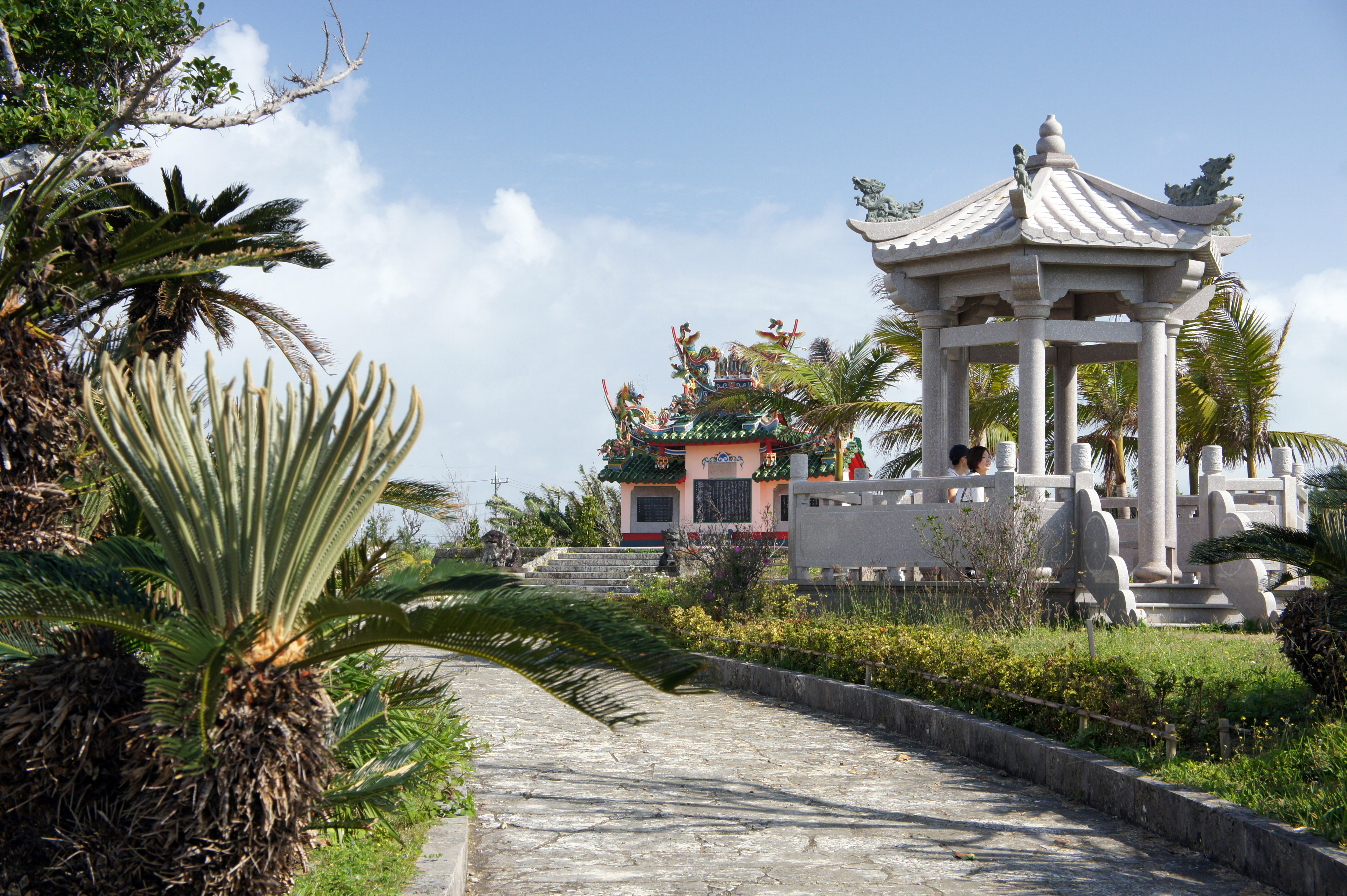 Tojin-baka in Ishigaki Island, Ishigaki City, Okinawa Prefecture, Japan.